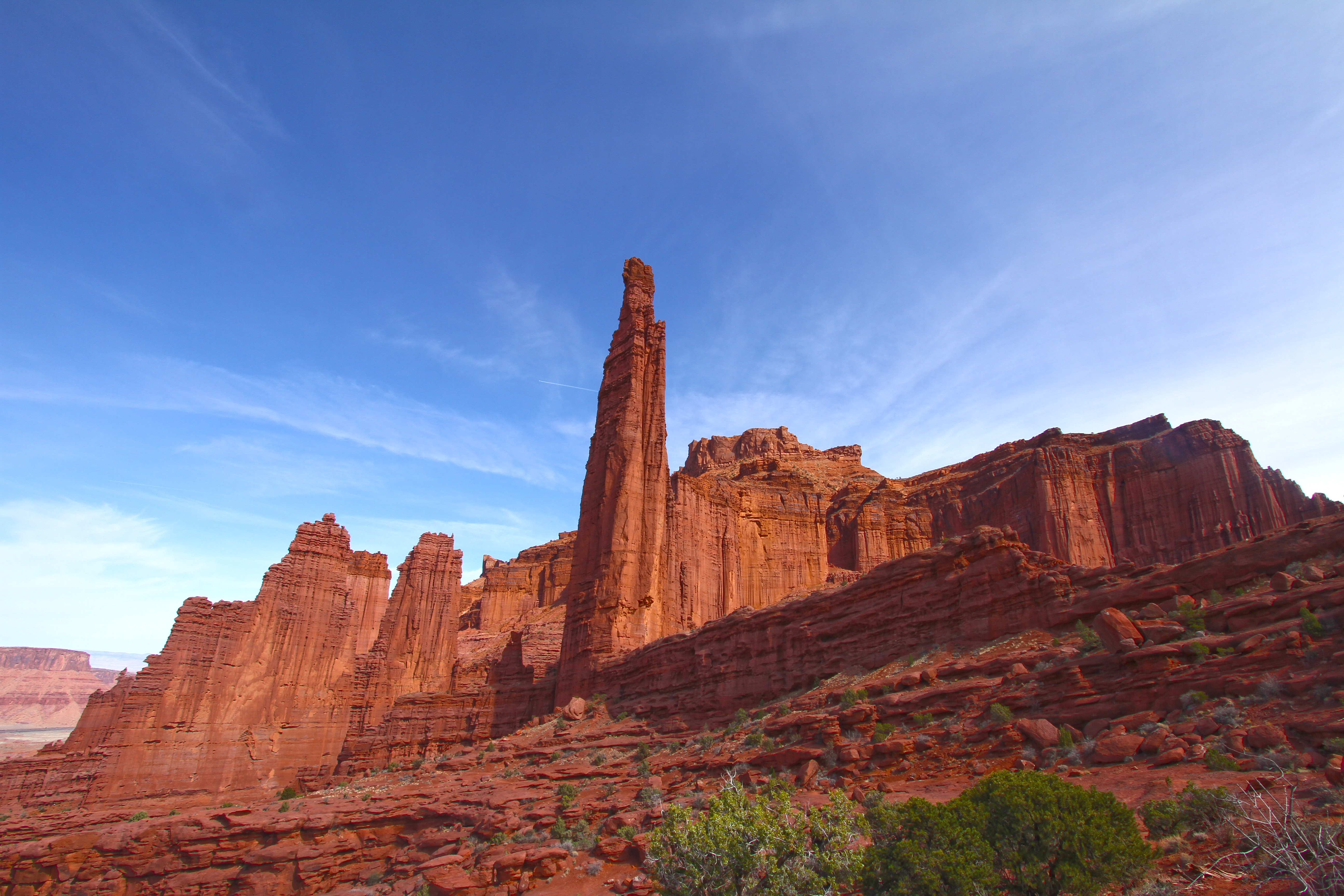 The Titan, Fisher Towers, March 22, 2015